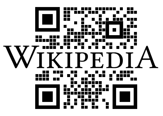 Linking to